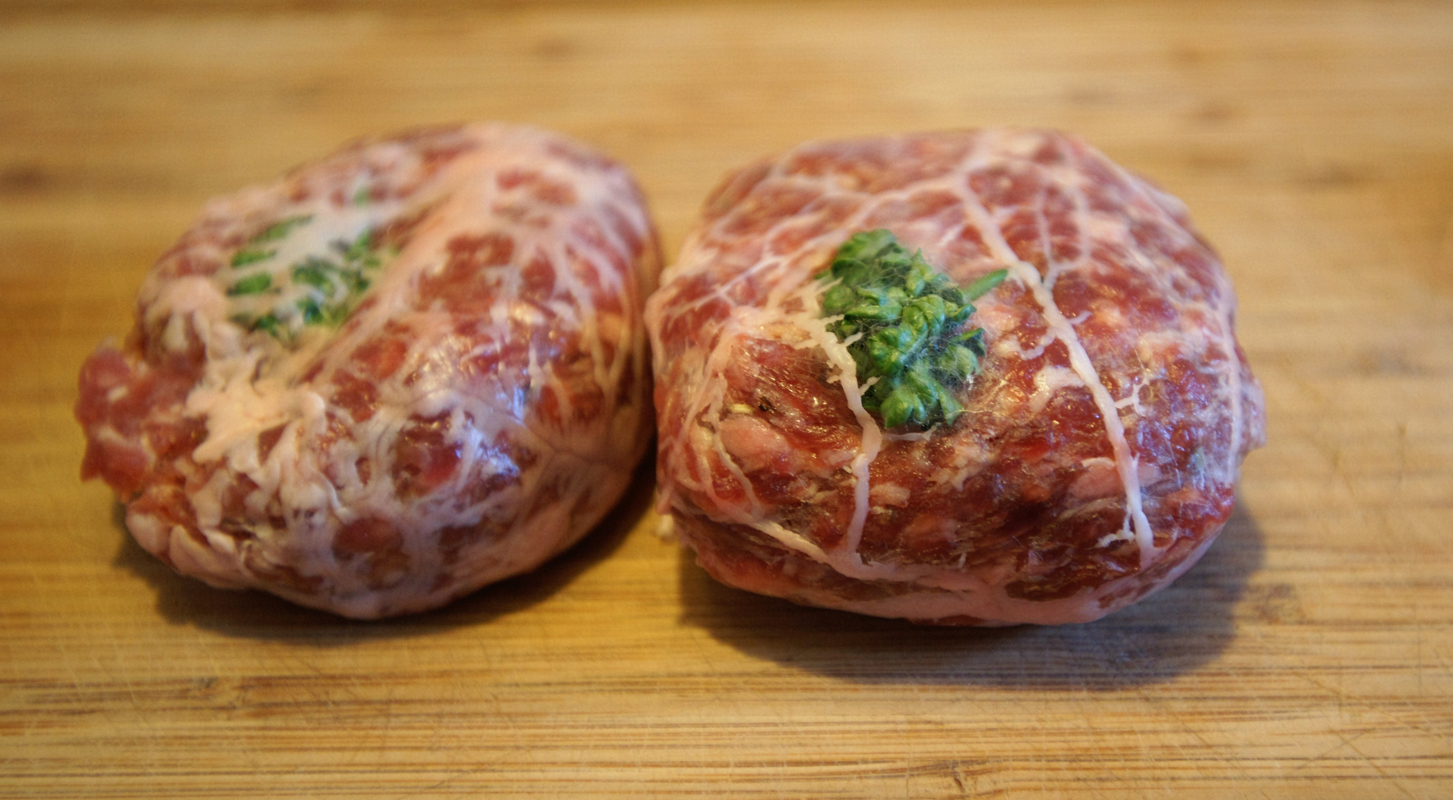 Atriaux - ground pork wrapped in caul fat